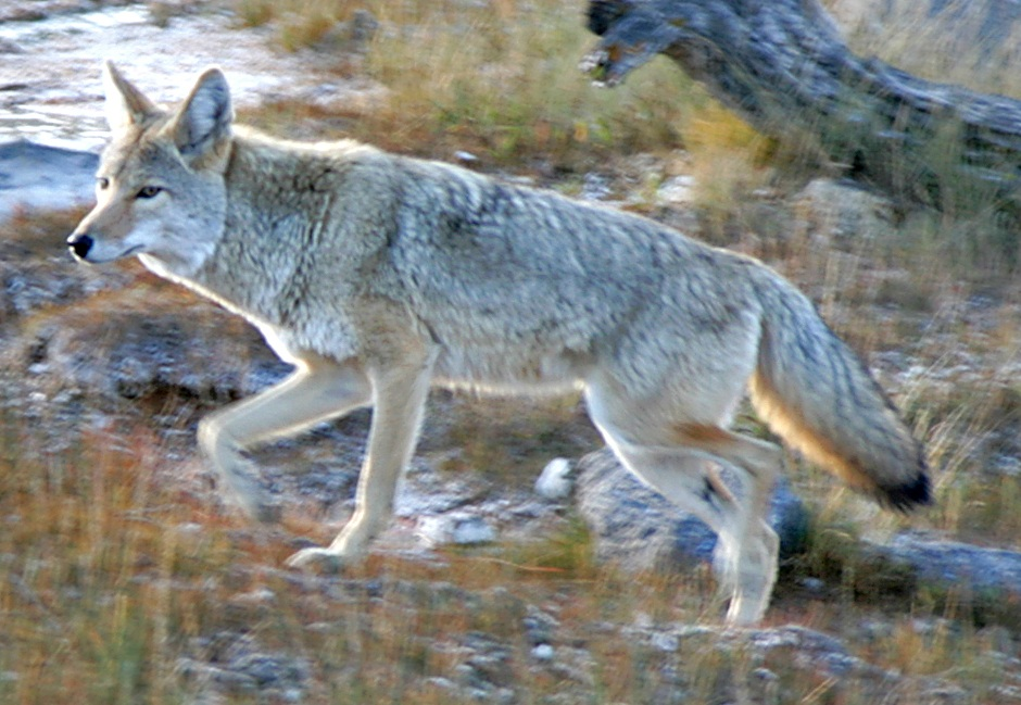 Coyote in Yellowstone National Park